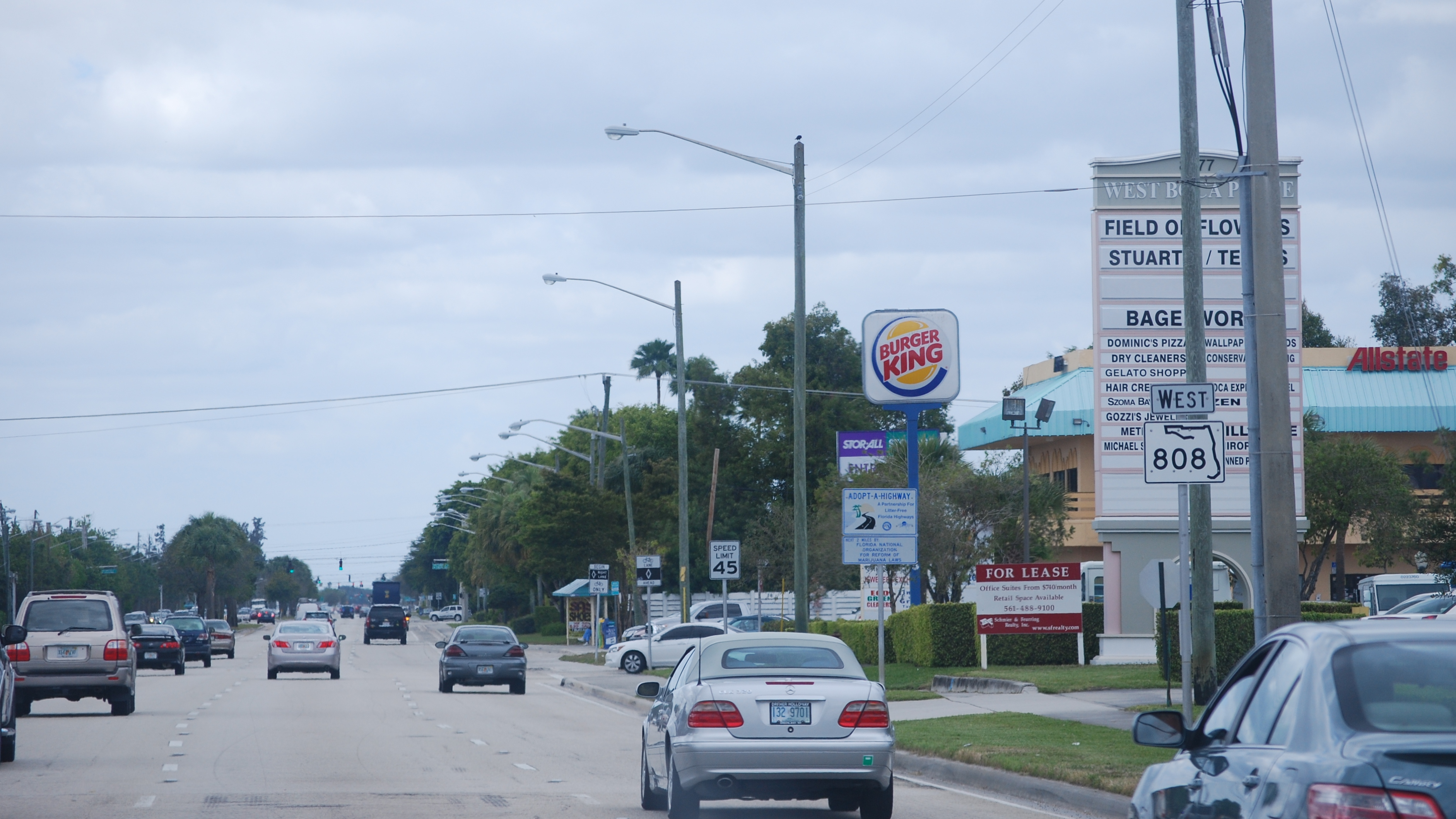 West on Florida State Road 808 near Boca Raton, Florida, USA.